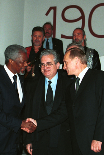 NEW YORK. The opening of the exhibition “The Amazons of Russian Avant-Garde” at the Solomon Guggenheim Museum. President Vladimir Putin, UN Secretary General Kofi Annan and State Hermitage Museum Director Mikhail Piotrоvsky.